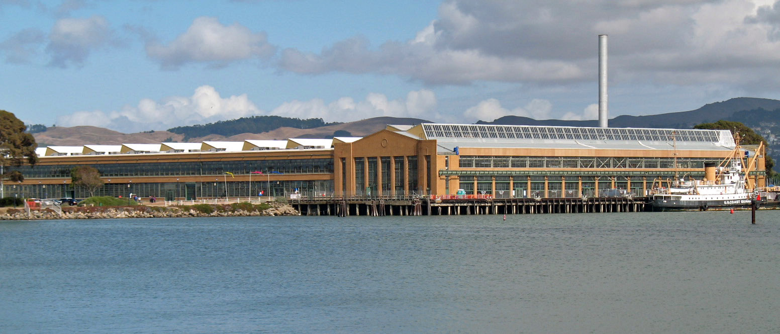 National Register of Historic Places listings in Contra Costa County, California. Ford Motor Company Assembly Plant, 1414-1422 Harbour Way South, Richmond, California, USA. Photographed 2008-10-04 from Point Richmond near the SS Red Oak Victory Ship.